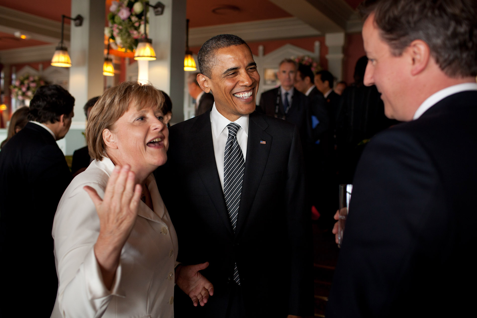 President Barack Obama talks with German Chancellor Angela Merkel and British Prime Minister David Cameron before the start of the working G8 dinner at Le Ciro’s Barriere Restaurant in Deauville, France, May 25, 2011. (Official White House Photo)